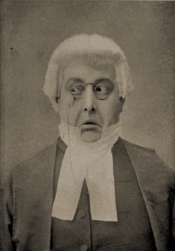 Rutland Barrington as the Judge in Trial by Jury, c. 1890